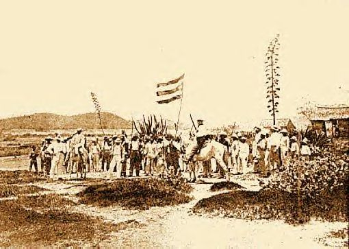 Image of the First Puerto Rican Flag flown on Puerto Rican soil during the "Intentona de Yauco" of 1897